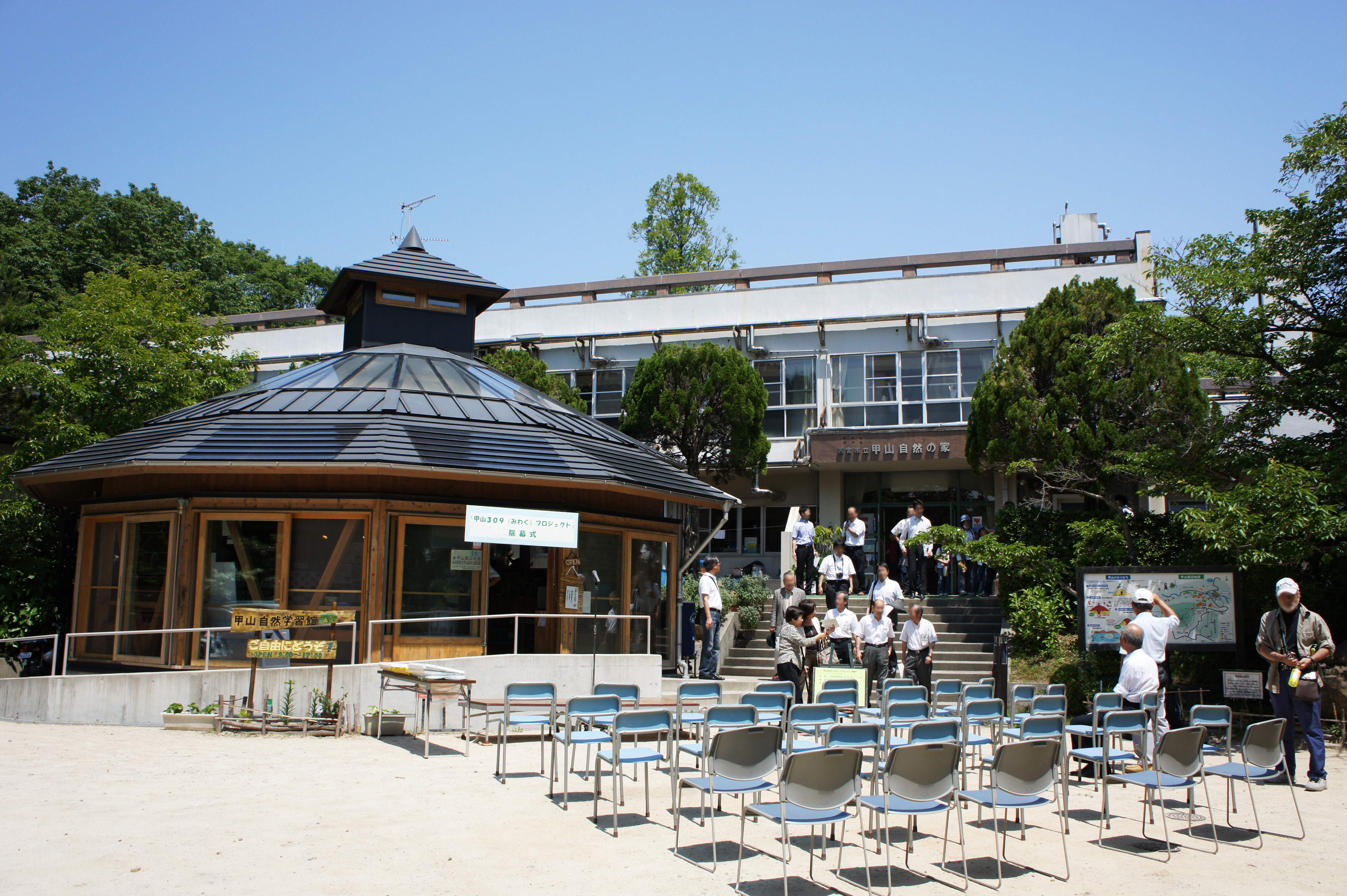 Hyogo prefectural Kabutoyama Forest Park in Nishinomiya, Hyogo prefecture, Japan